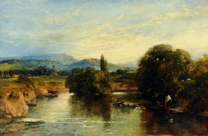 River Aire, near Appleby, Yorkshire, landscape painting.